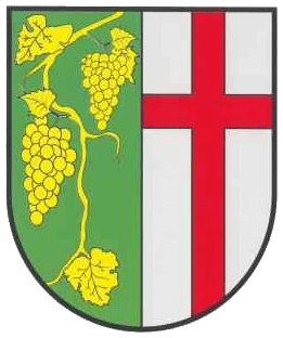 Coat of arms of Ediger-Eller